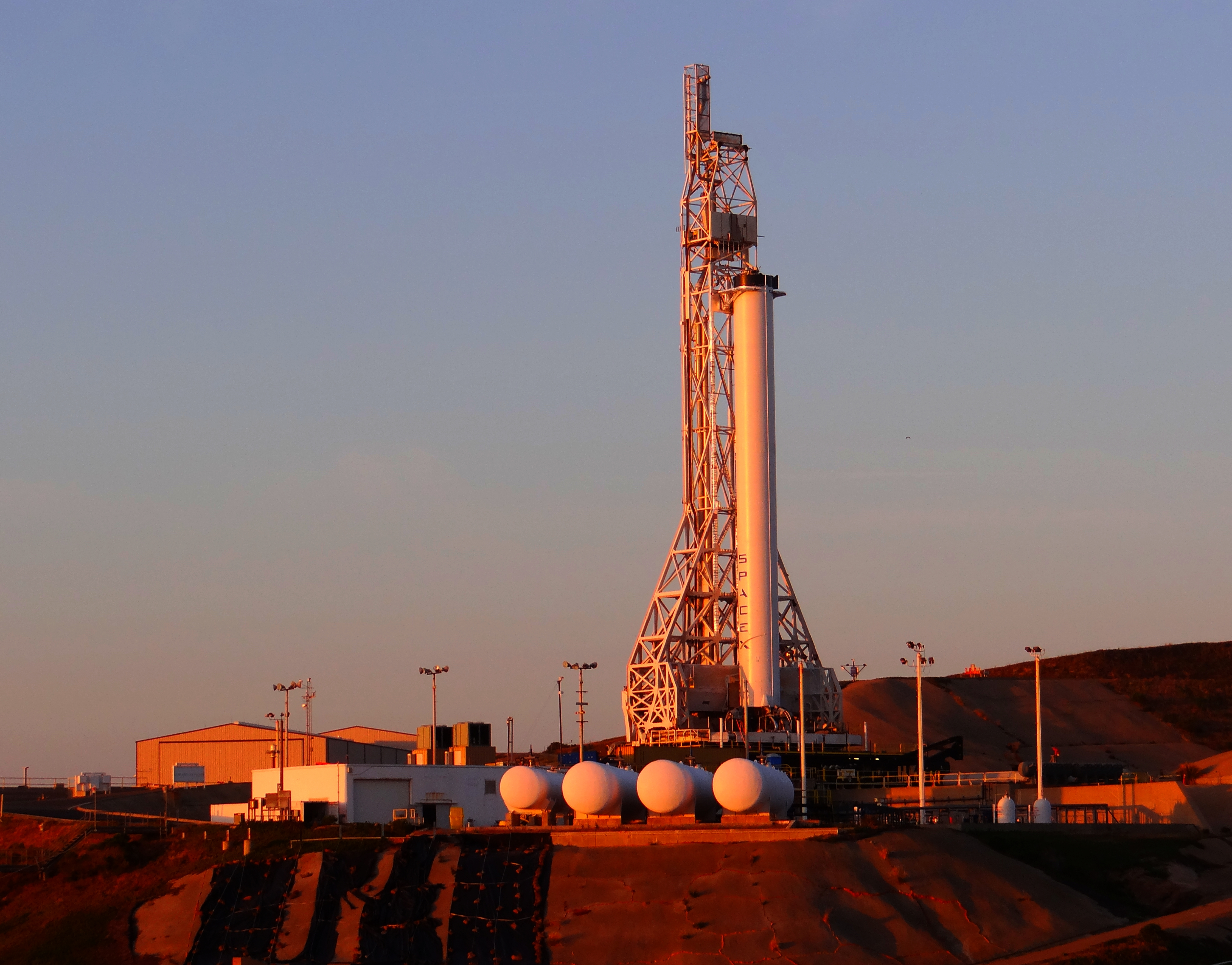 A SpaceX Falcon 9 booster is is tested at Vandenberg's SLC-4E